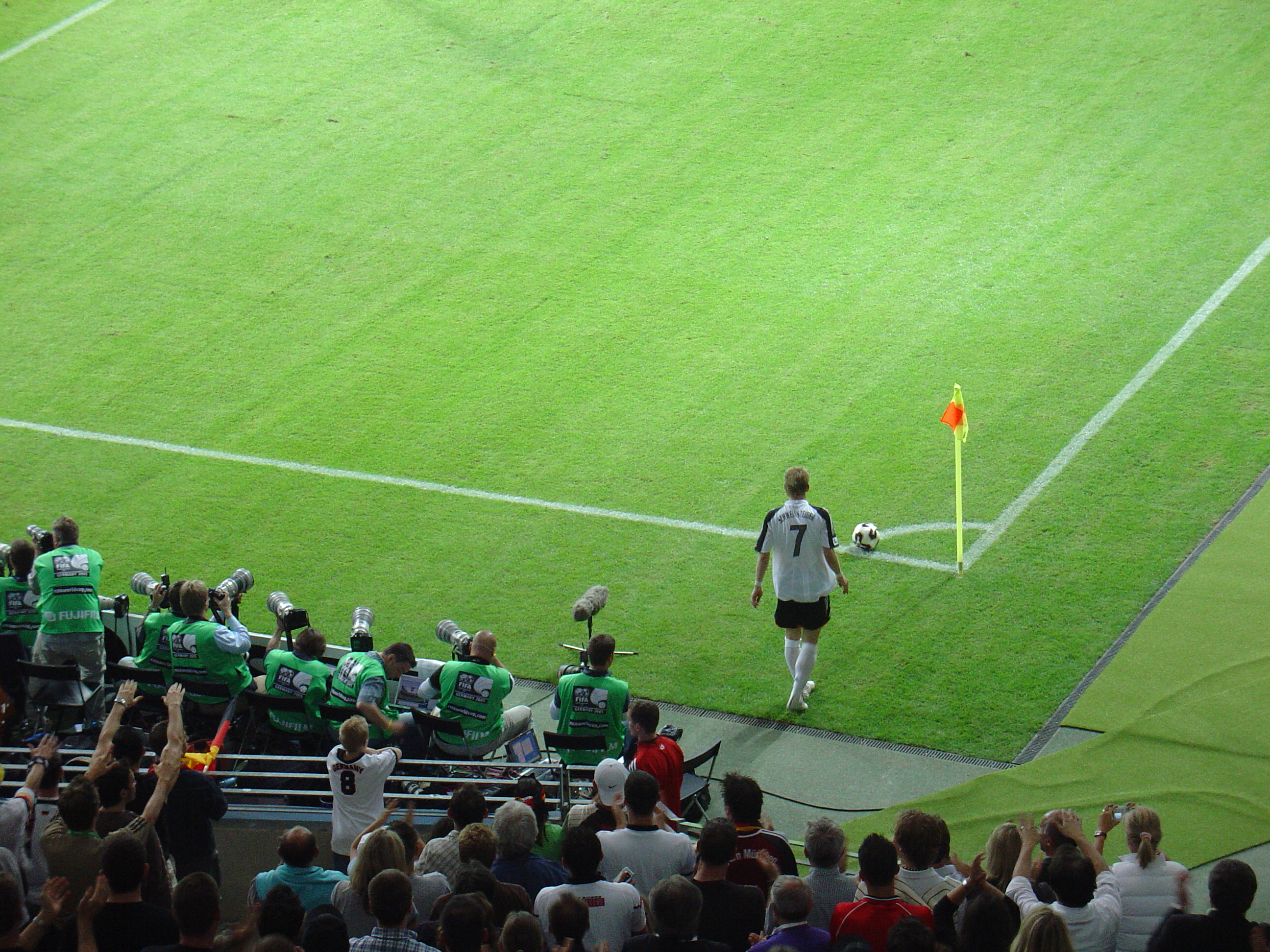 Bastian Schweinsteiger does a corner kick for Germany at the opening match of the Confed-Cup 2005 in Frankfurt a.M.